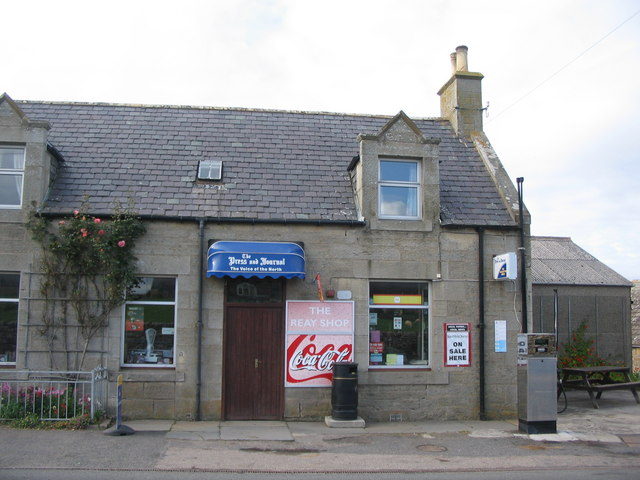 The Reay Shop A view looking to the north across the A836 towards The Reay Shop.